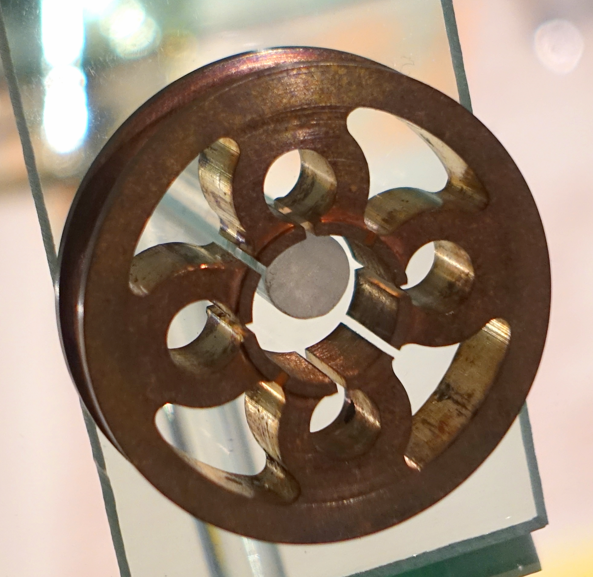 Exhibit in the National Electronics Museum, 1745 West Nursery Road, Linthicum, Maryland, USA. All items in this museum are unclassified. The museum permitted photography without restriction.